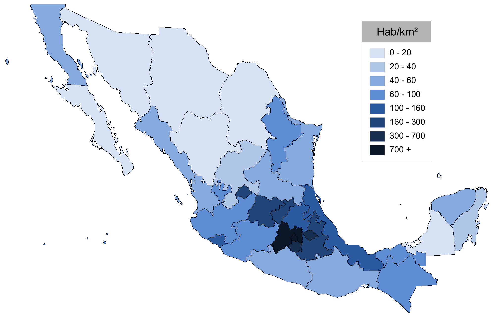 Map of Mexico showing population density.